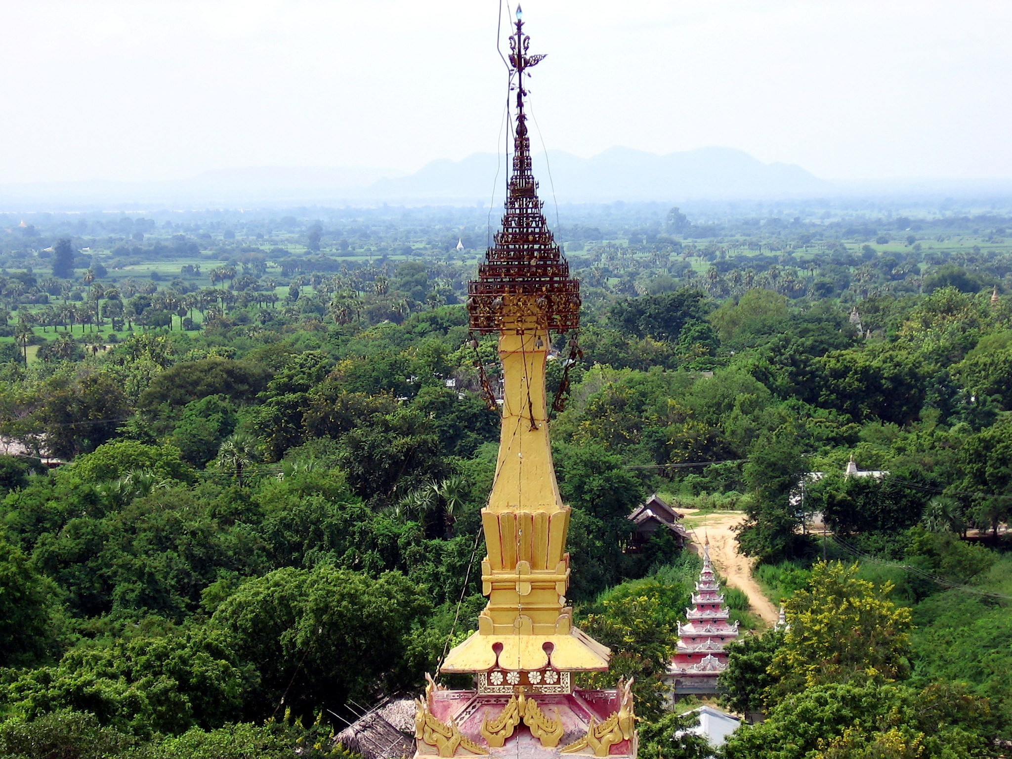 View from Aung Setkya paya, near Monywa, Myanmar.